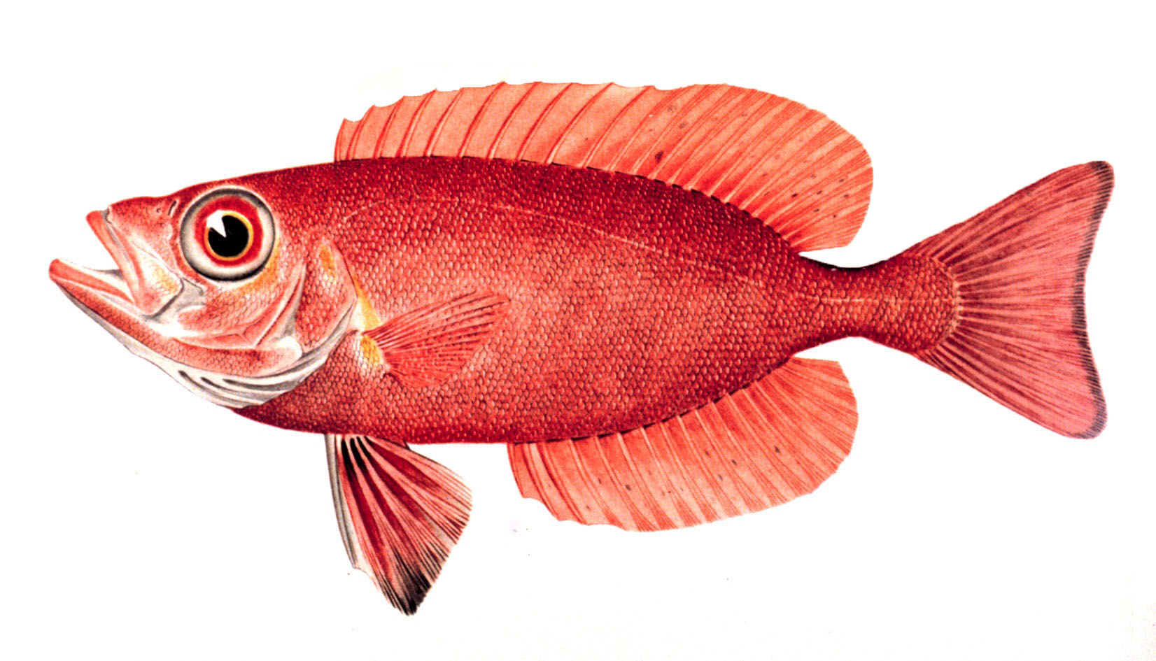 Priacanthus Full bibliographical reference: Everman, B.W. and M.C. Marsh. 1902. The fishes of Porto Rico. Bulletin of the United States Fish Commission, Volume 10 for 1900. Plate 16.